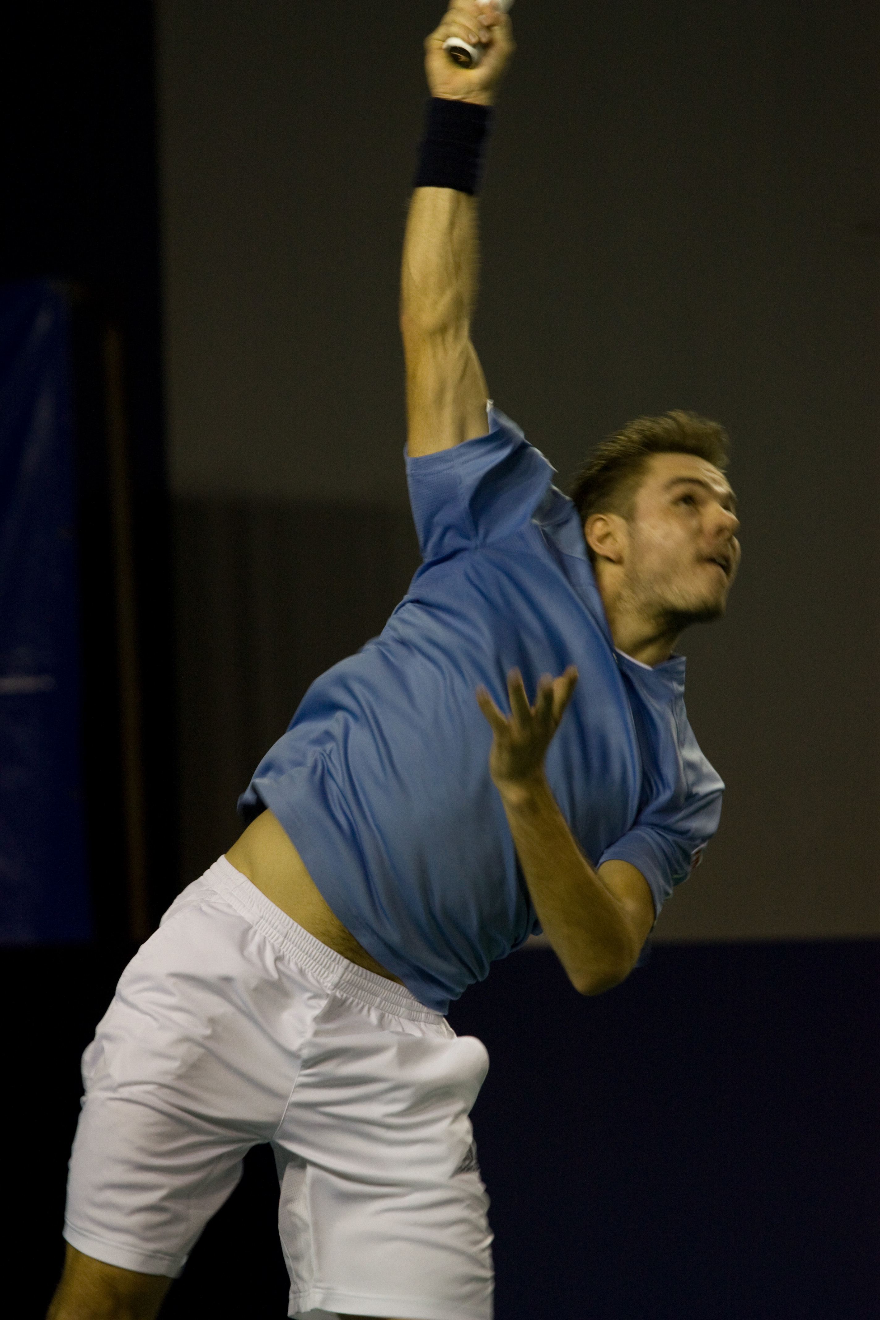 Stanislas Wawrinka against Tomas Berdych at the 2008 BNP Paribas Masters